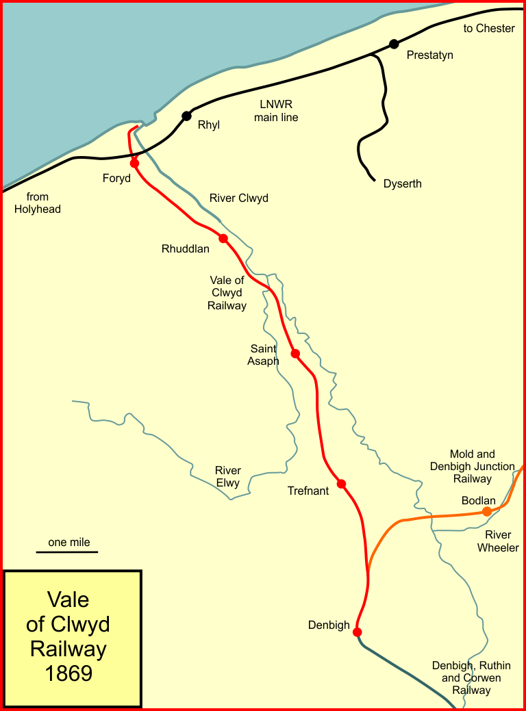 Diagram of the Vale of Clwyd Railway in North Wales in 1869